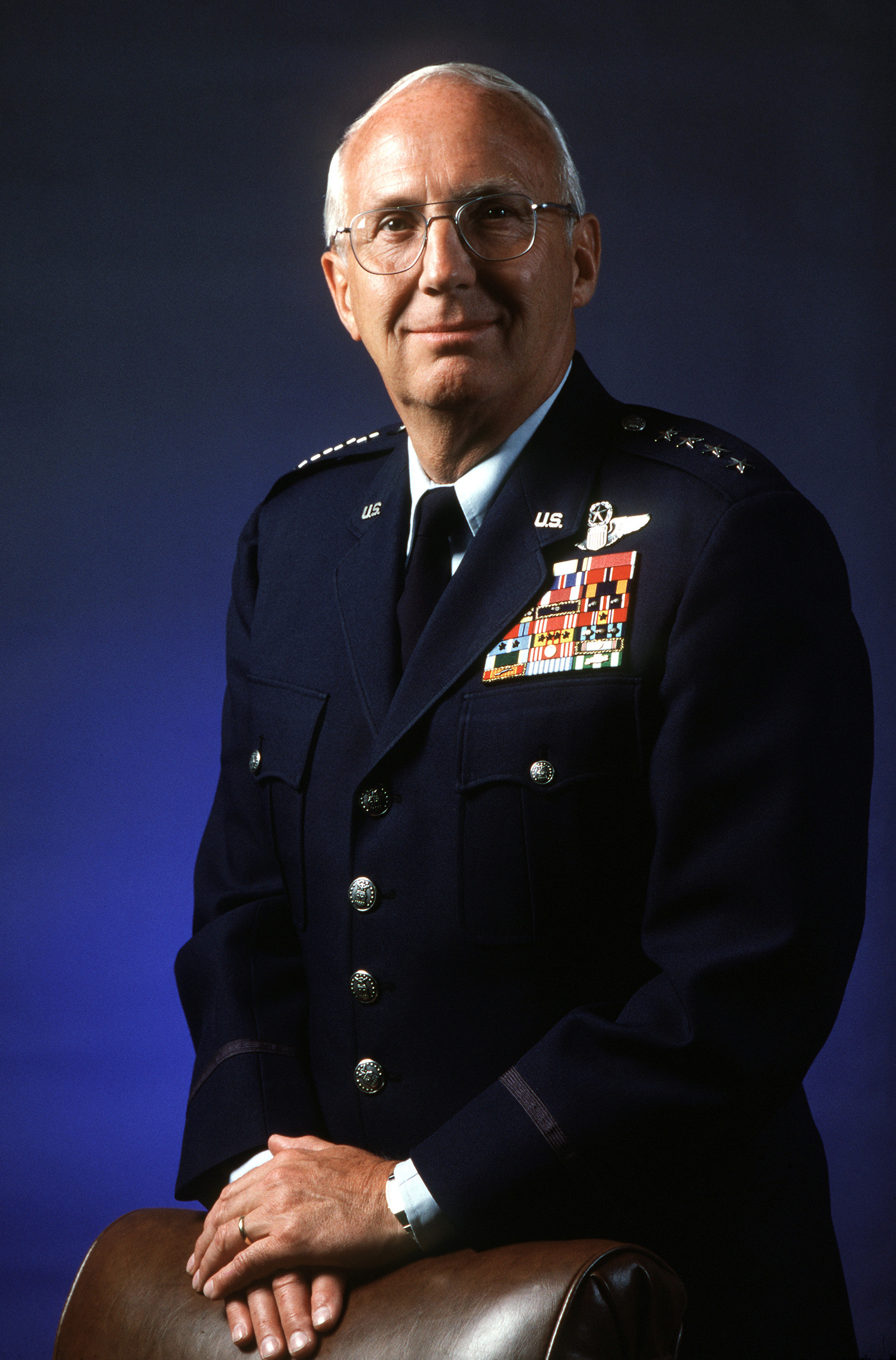 GEN Earl T. O'Loughlin, USAF